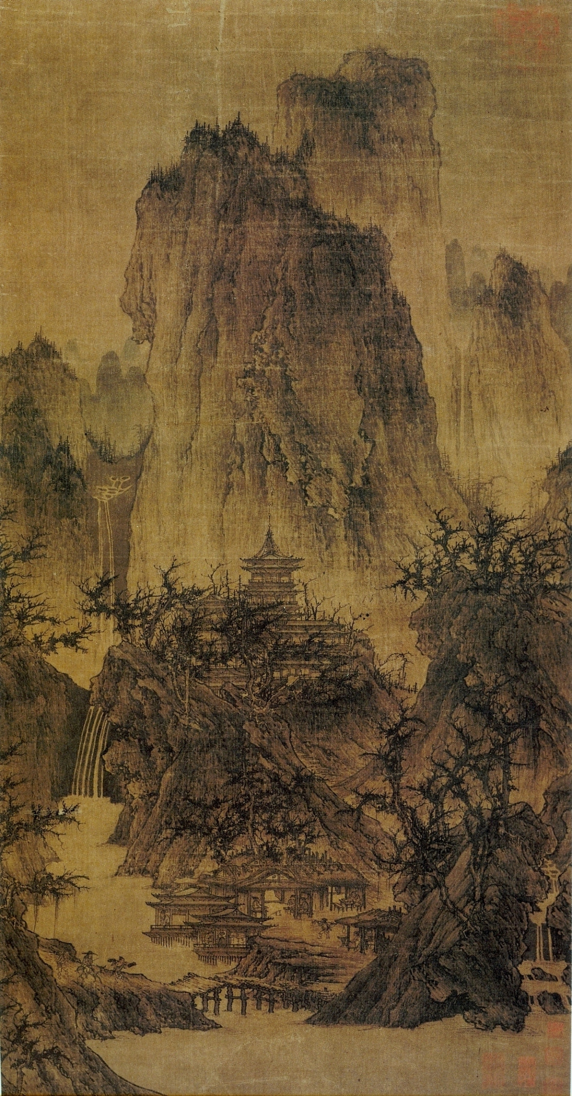 Li_Cheng._Buddhist_Temple_in_Mountain._Nelson-Atkins_museum_of_art